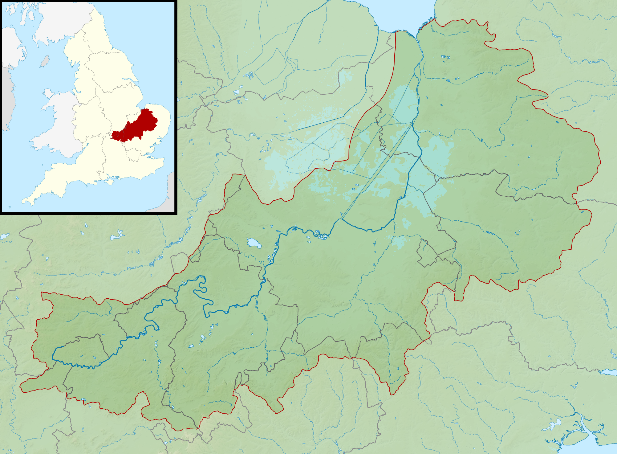 Map of the River Great Ouse and its catchment in England. Map is on British National Grid with limits at grid refs SK4535 (top left), TG1535 (top right), SP4510 (bottom left), TM1510 (bottom right).